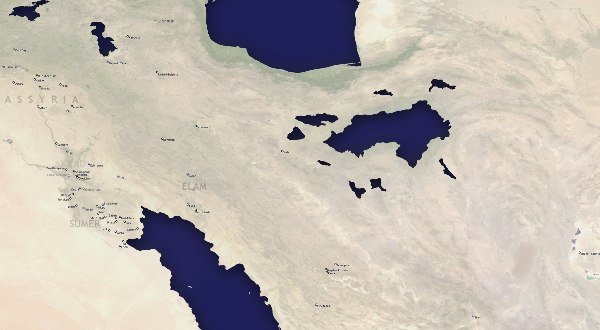 Ancient sites in Iran